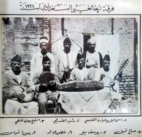 Chalghi Baghdadi 1932